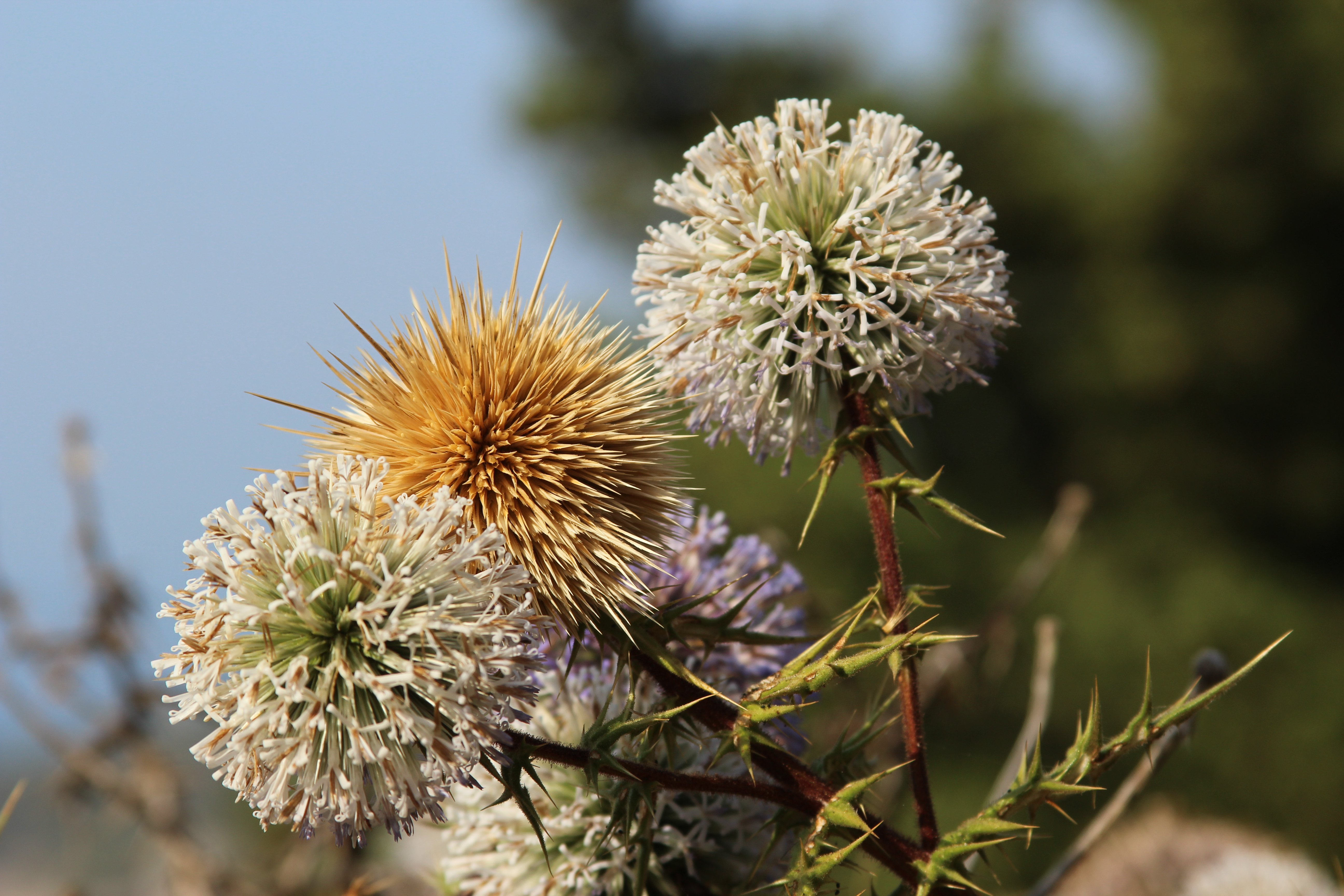 Echinops spinosissimus at Samos